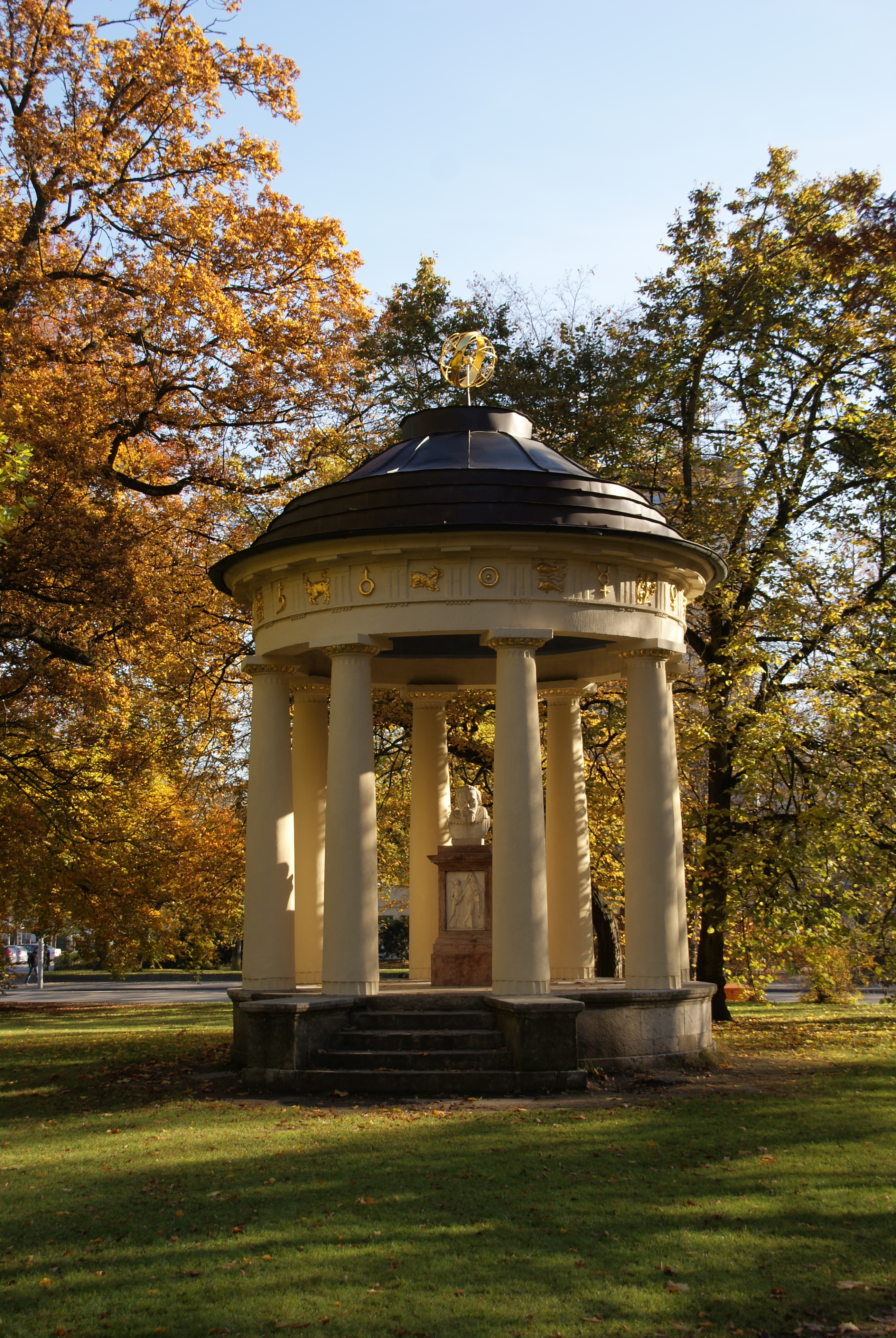 Kepler memorial in Regensburg - 1806/08 by Emanuel d'Herigoyen - bust by Friedrich Döll - relief by Johann Heinrich von Dannecker. The memorial is located at the Fürst-Anselm Allee near Kepler's burial.